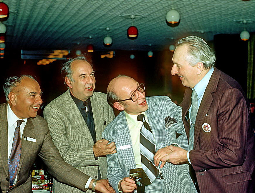 Mikael Ter- Mikaelian, Muradian, Franken, Prokhorov